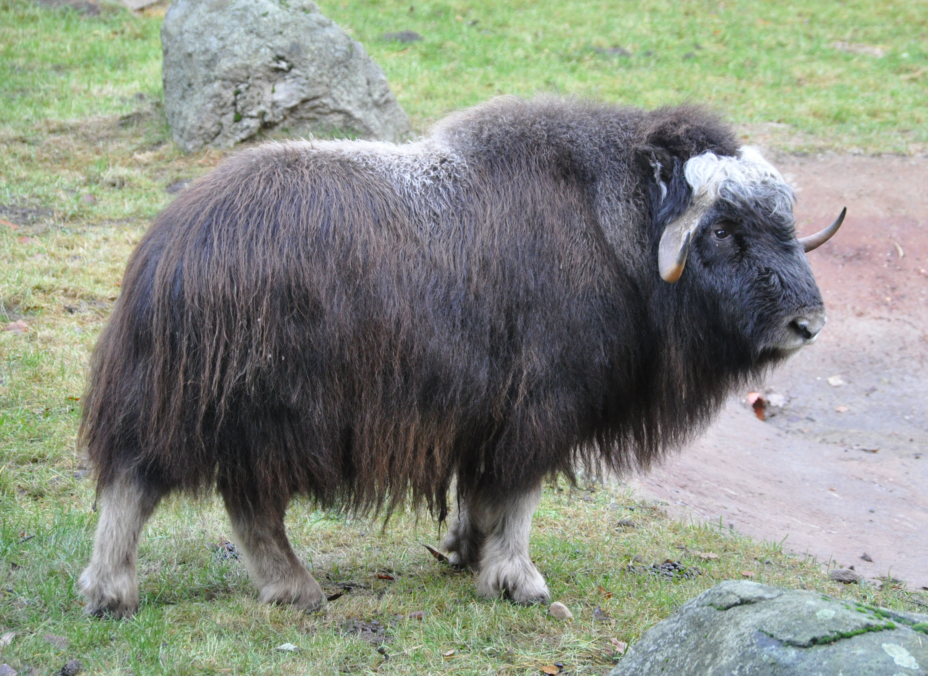 Muskox (Ovibos moschatus) in the Lüneburg Heath wildlife park, Germany.